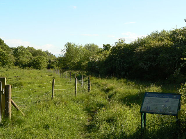 Wilwell Farm Cutting Nature Reserve The reserve actually covers more than the actual railway cutting, which is to the right of, and lower than, the hedge to the right, but it is possible that the excavations here were needed to provide spoil for the long embankment northwards to the River Trent.